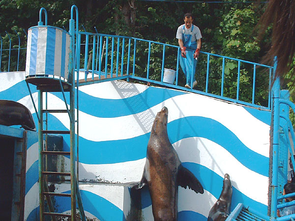 Okhotsk Aquarium , Steller sea lion